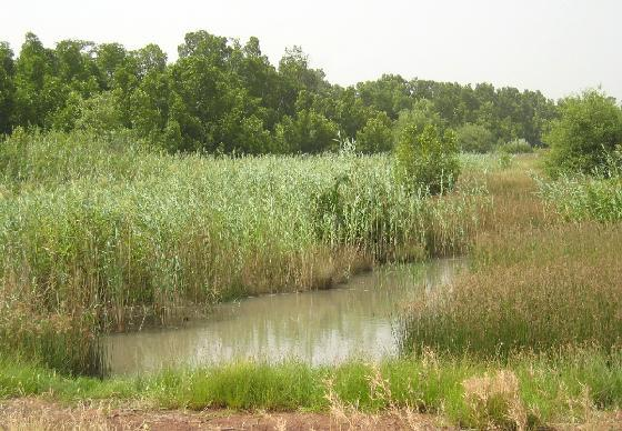 mangroves